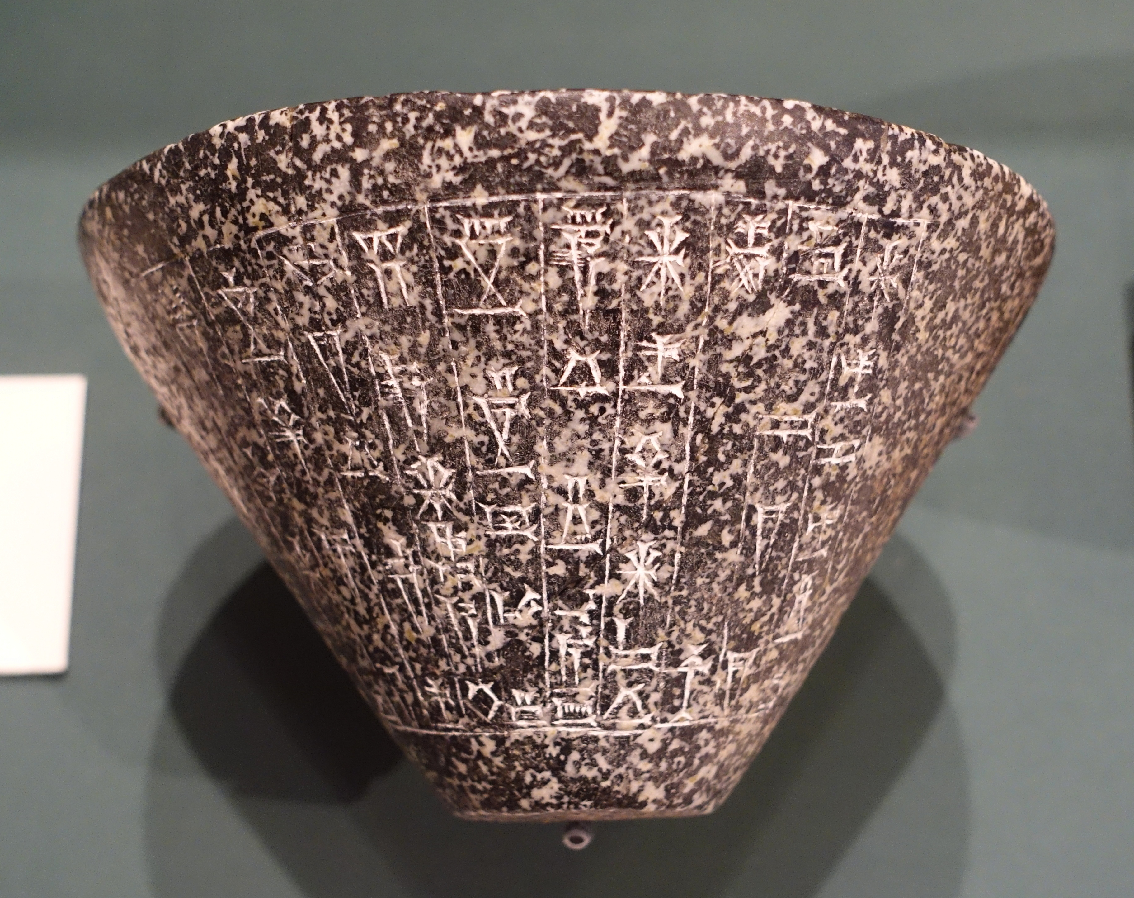 Exhibit in the Oriental Institute Museum, University of Chicago, Chicago, Illinois, USA. This work is old enough so that it is in the public domain. Translation: "To the goddess Inanna of Zabala, his lady, for the life of Rim-Sin, king of Larsa, Shallurum, the son of Lu-Asalluhi, her reverent servant, presented (this) bowl of ... stone to her".